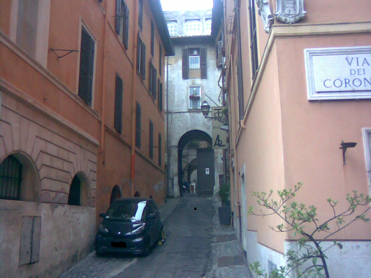 Via Gabrielli